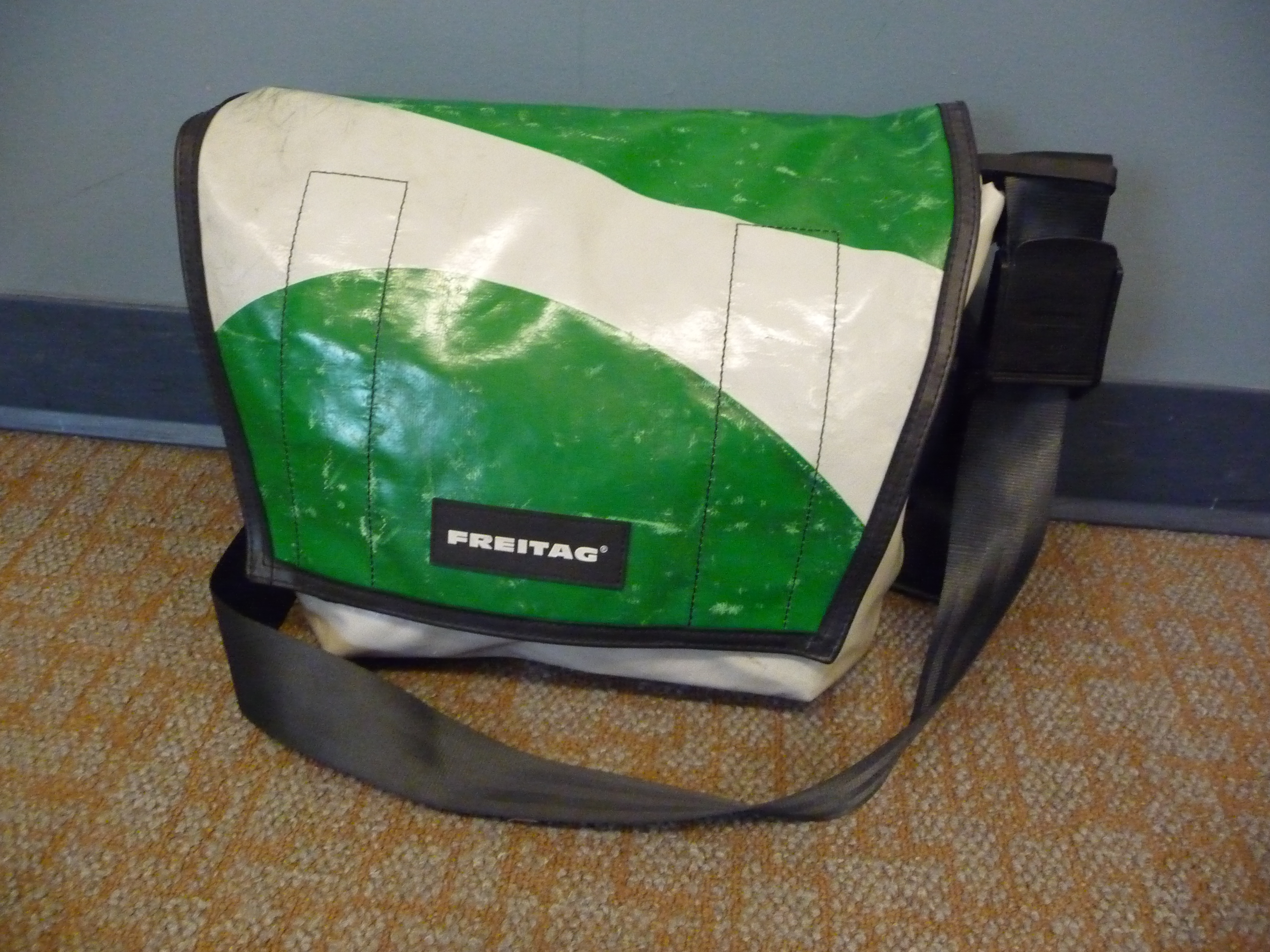 Freitag Messenger Bag